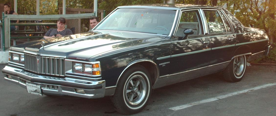 1977-1981 Pontiac Parisienne photographed in Montreal, Quebec, Canada at Gibeau Orange Julep.